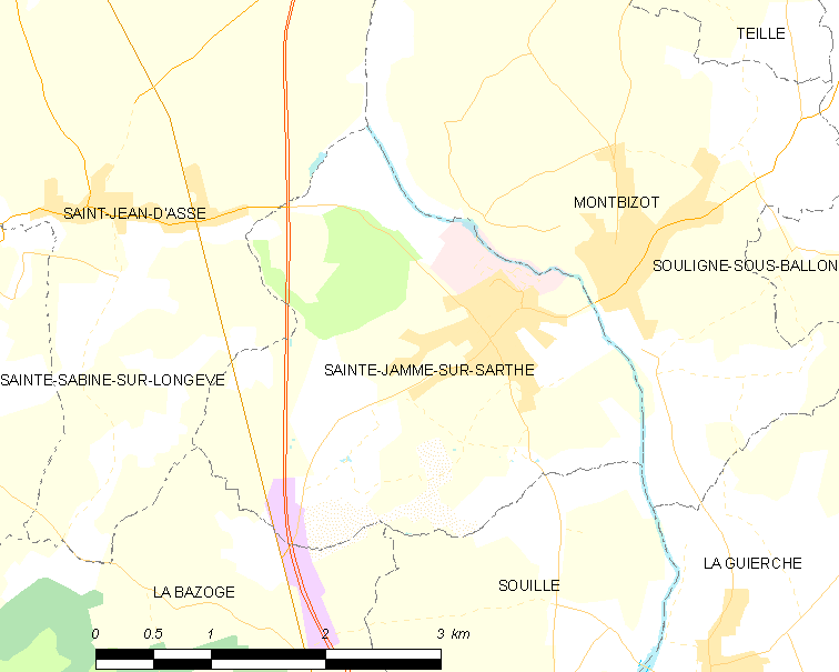 Map of French municipality